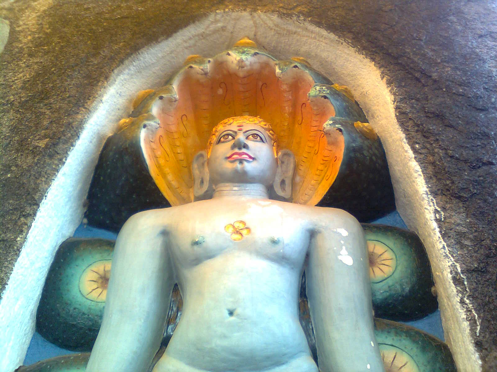 A Jain Tirthankara Relief(painted recently) at Padmakshi Gutta, Hanumakonda, Warangal district